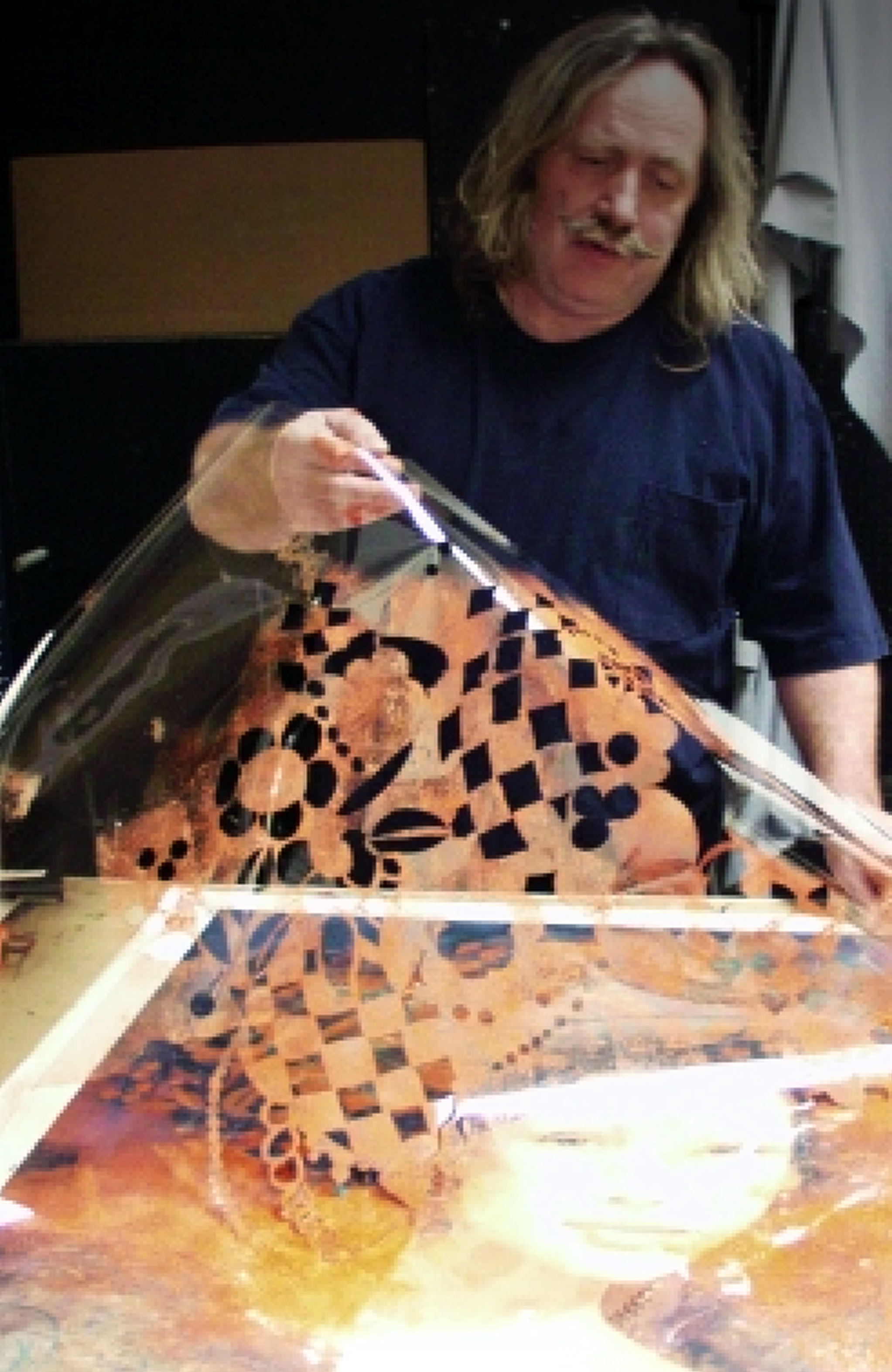 Hand-painted color separation on transparent overlay by artist Csaba Markus